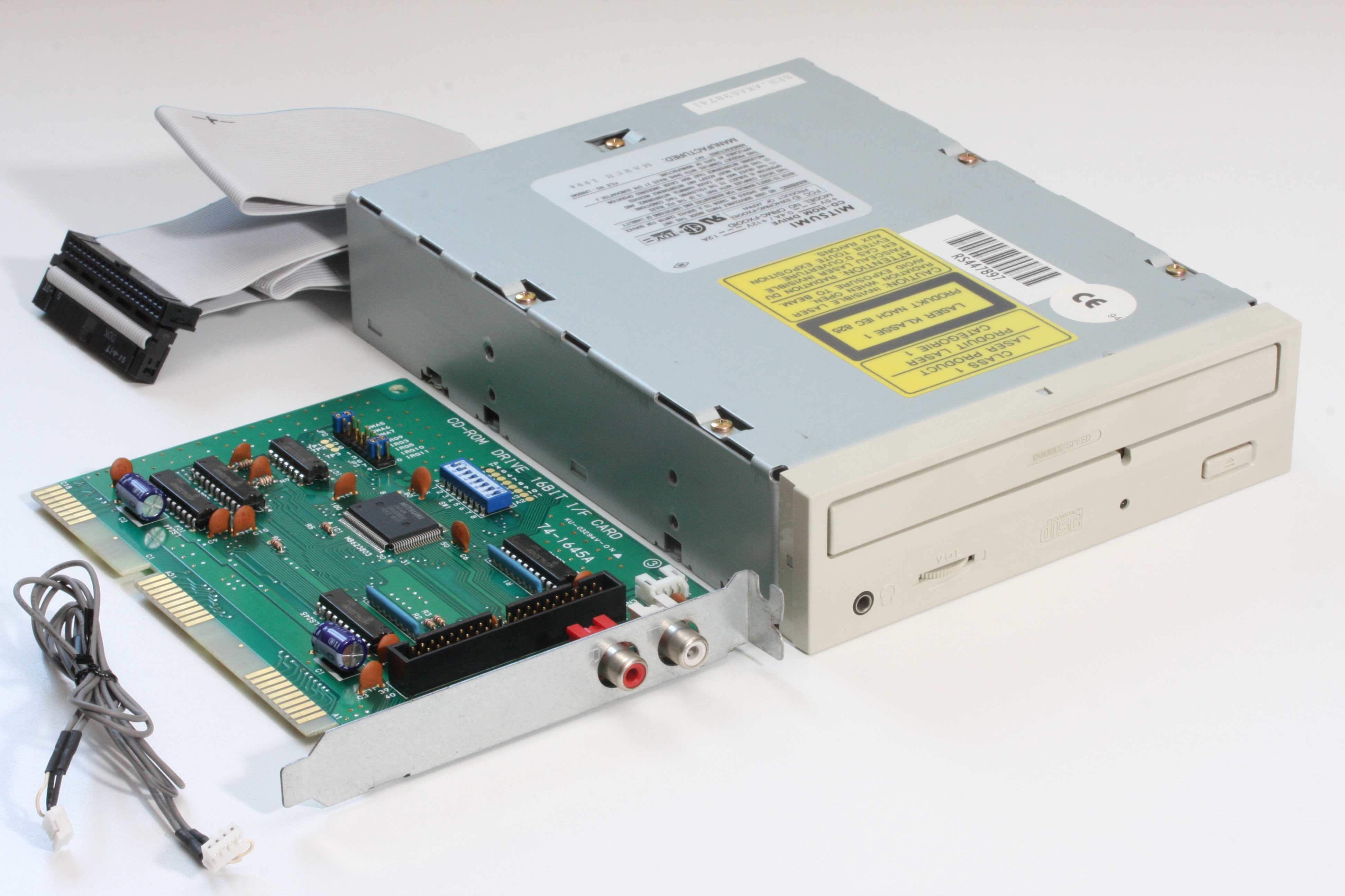 Mitsumi DoubleSpeed CD-ROM drive CRMC-FX001D with ISA 16bit ide and audio card and accessories